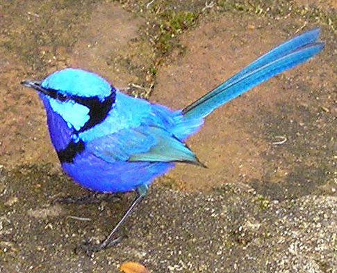 Splendid Fairywren